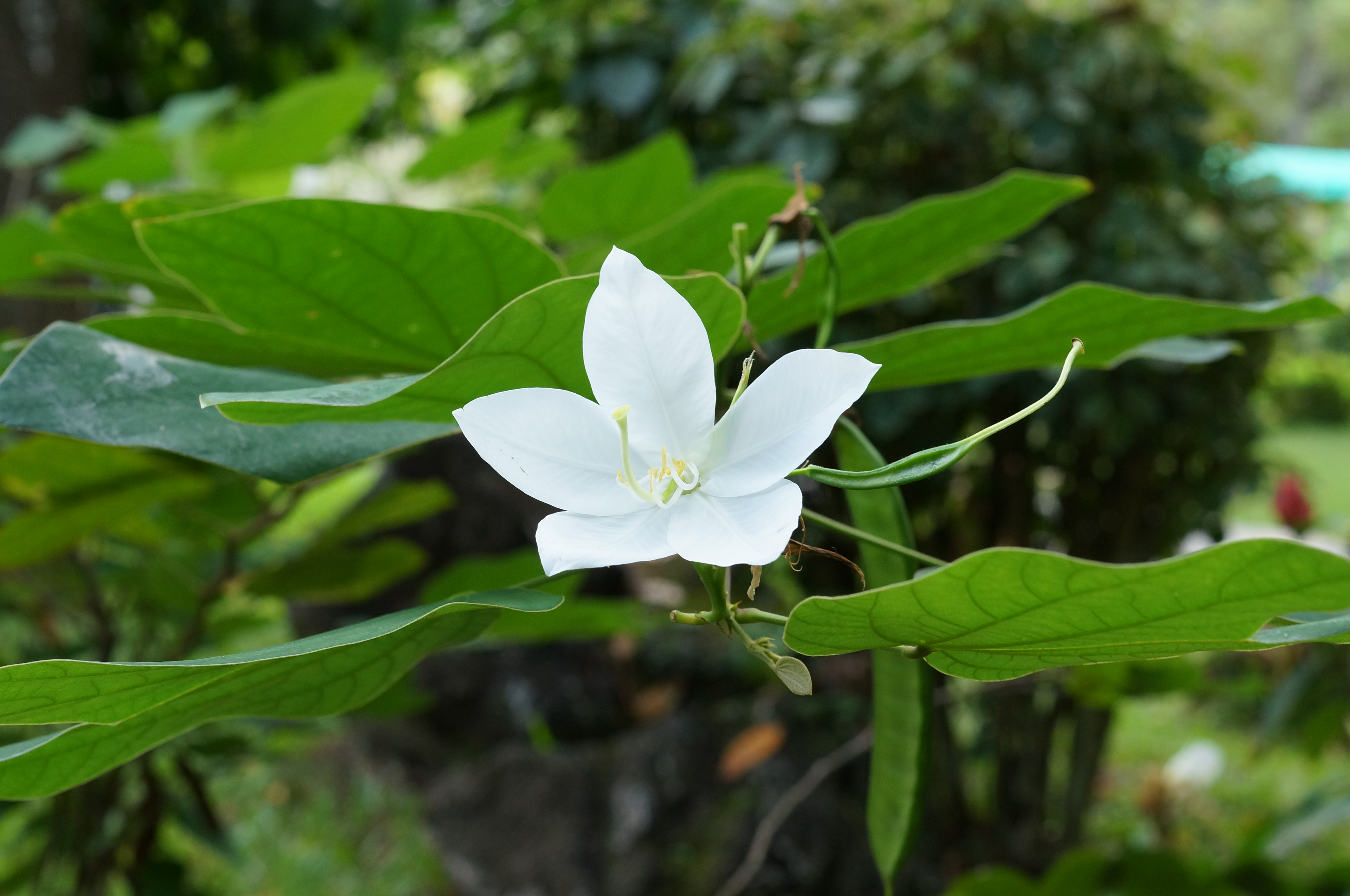 Dwarf white Bauhinia